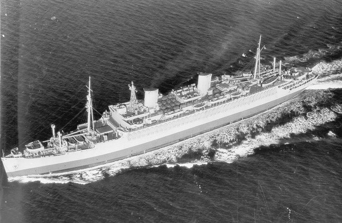 USS Wakefield (AP-21) underway, date and location unknown